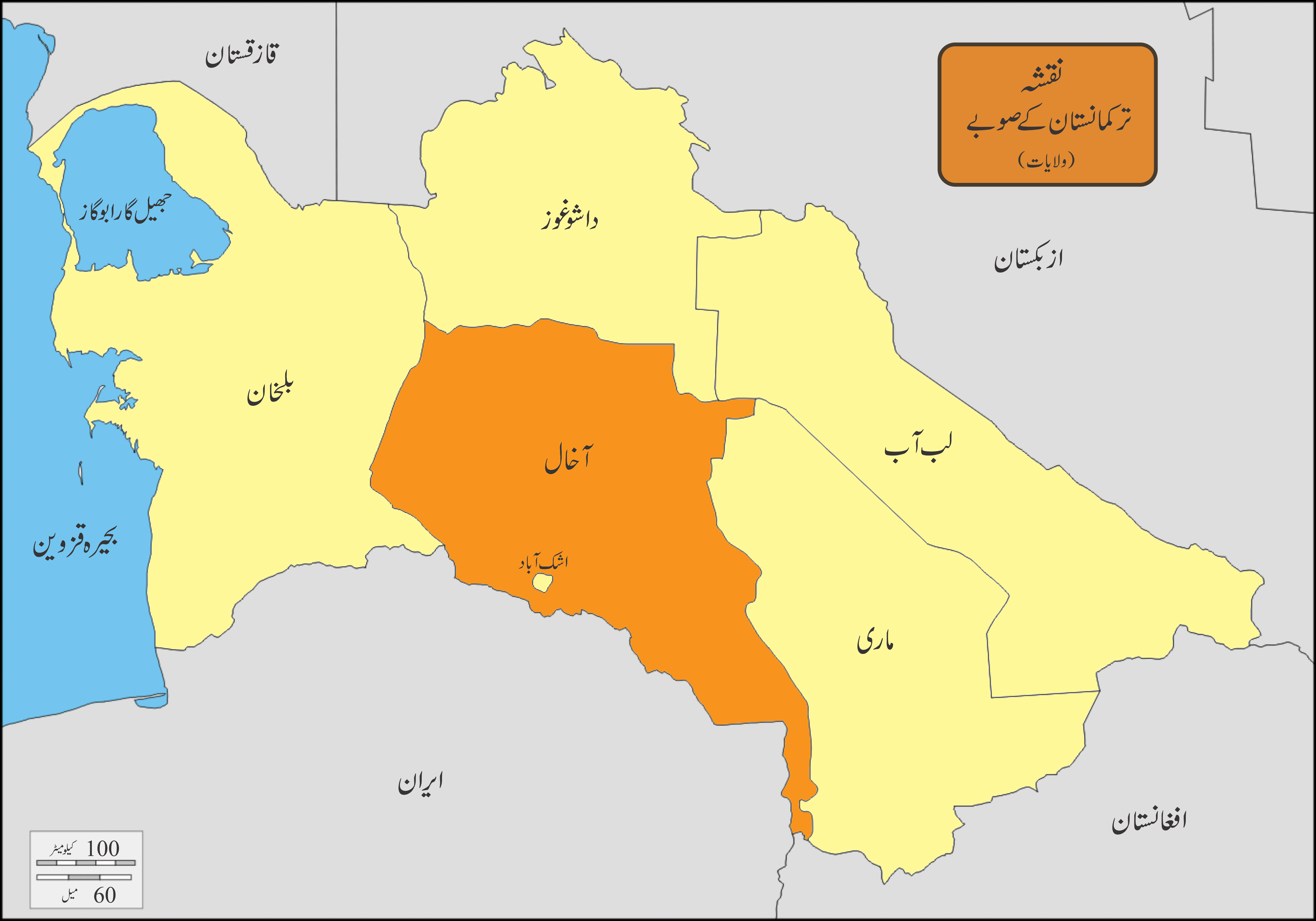 Turkmenistan Ur Ahal